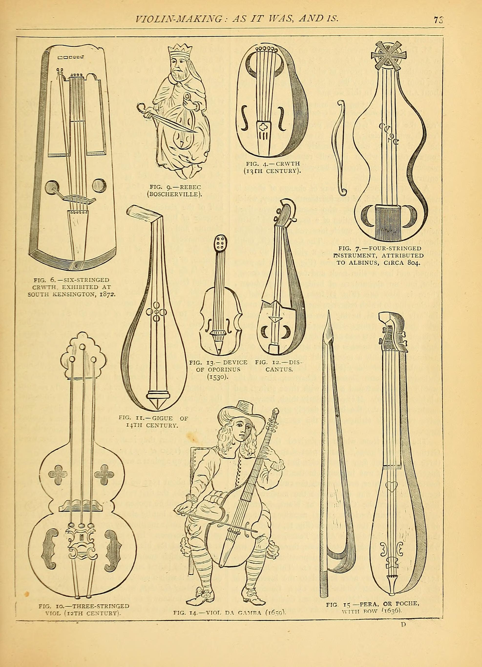 Title: Amateur work, illustrated Year: 1881 (1880s) Authors: Subjects: Industrial arts Handicraft Publisher: London, New York : Ward, Lock & Co. Text Appearing Before Image: FIG. 5.—GIGUE (BOS-CHERVILLE). VIOLIN-MAKING : AS IT WAS, AND IS. IS Captions on image: VIOLIN-MAKING: AS IT WAS, AND IS. 73 FIG. 6. —— Six-stringed Crwth, exhibited at South Kensington, 1872. FIG. 9. —— Rebec (Boscherville). FIG. 4. —— Crwth (13th century). FIG. 7. —— Four-stringed instrument, attributed to Albinus, circa 804. FIG. 11. —— Gigue of 14th century. FIG. 13. —— Device of Oporinus (1530). FIG. 12. —— Discantus. FIG. 10. —— Three-stringed Viol (12th century). FIG. 14. —— Viol da gamba (1659). FIG. 15. —— Pera, or Poche, with bow (1636). D Text Appearing After Image: FIG. 10.—THREE-STRINGEDVIOL I2TH CENTURY). FIG. 14.—VIOI. DA GAMRA ft6;oV FIG. IS —PERA, OR POCHE,WITH BOW 1636V 74 VIOLIN MAKING: AS IT WAS, AND IS. modern German, fidel, or fiedel. All these are givenin M. Dubourgs interesting work on the violin. Asan Anglo-Saxon word, fythele is of great antiquity,as countless extracts prove, of which I shall only quoteone, from the legendary life of St. Christopher, writtenabout A.D. 1200, In this we find— Chrystofre hym served longe,The Kynge loved melody of fythele and of song.** From the word fythele is probably derived theFrench word vielle, which is now only applied tothe hurdy-gurdy, which is nearly allied to the old organistrum, which is well represented in themuseum at Rouen, from a bas-relief of the twelfthcentury, at Boscherville. A great advance in the way of change of shape ismentioned in a MS. of the fourteenth century, whichascribes to one Albinus, who seems to have livedabout A.D. 804, the invention of a four-stringed instru